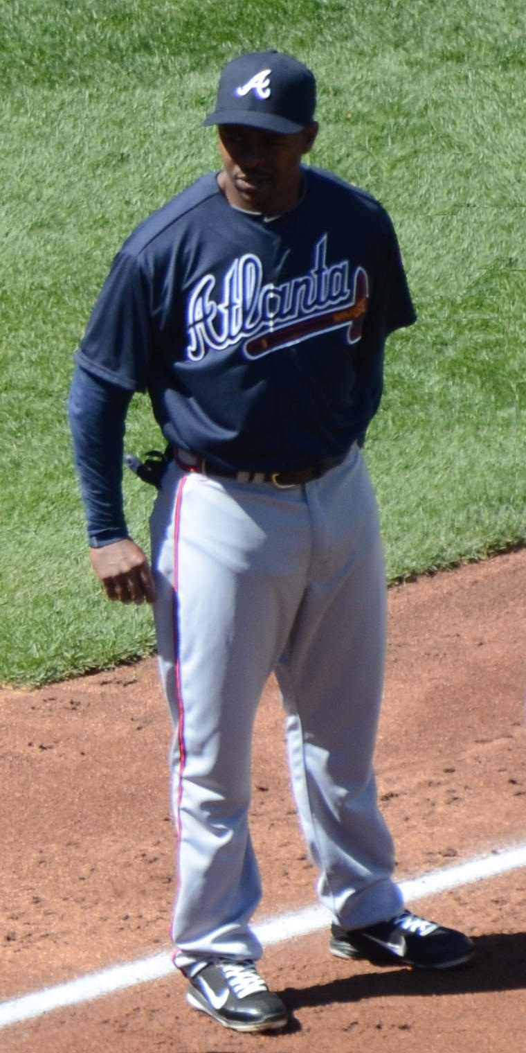 Michael Bourn